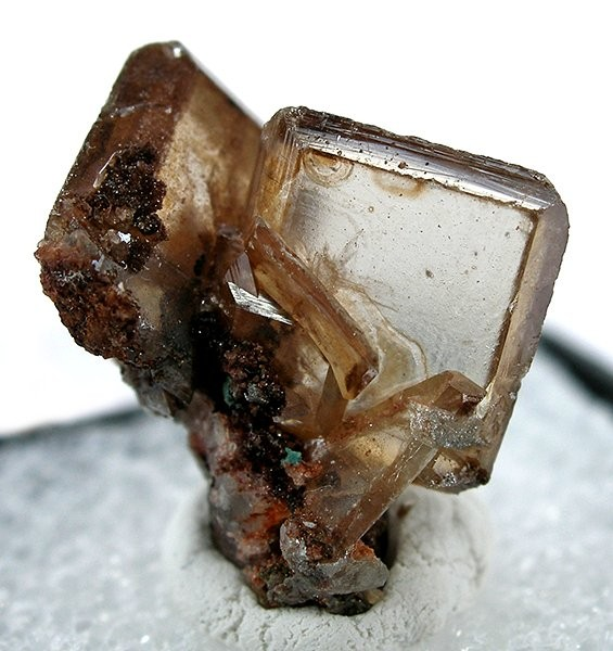 Wulfenite Locality: Tsumeb Mine (Tsumcorp Mine), Tsumeb, Otjikoto (Oshikoto) Region, Namibia (Locality at ) Size: 1.7 x 1.5 x 1.1 cm. SHARP, GEMMY, wulfenite….an excellent thumbnail for this locality! Ex. Charlie Key stock.